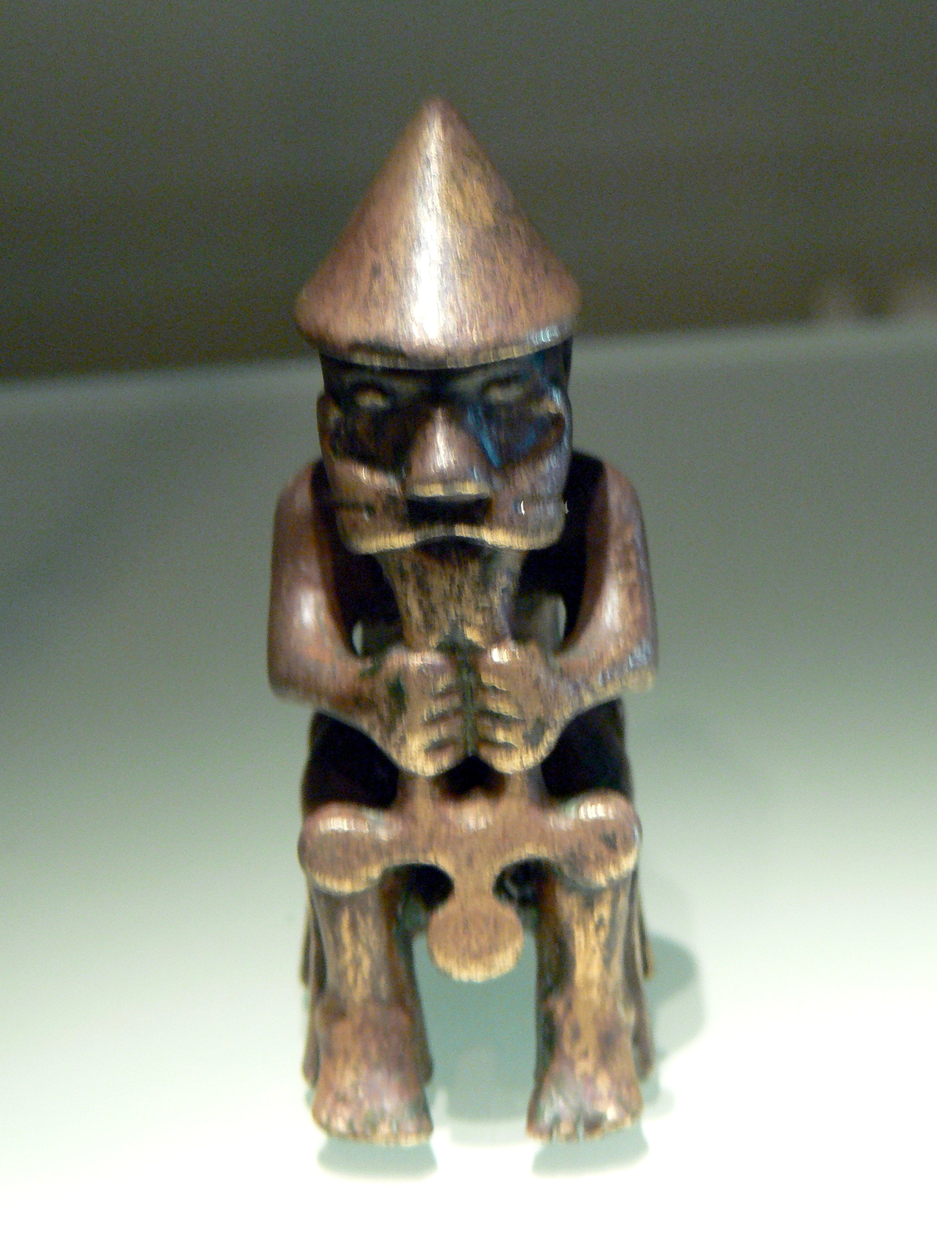 National Museum of Iceland, Reykjavik. Figure of god Thor ( ca. 1000 AD ), made of bronze.